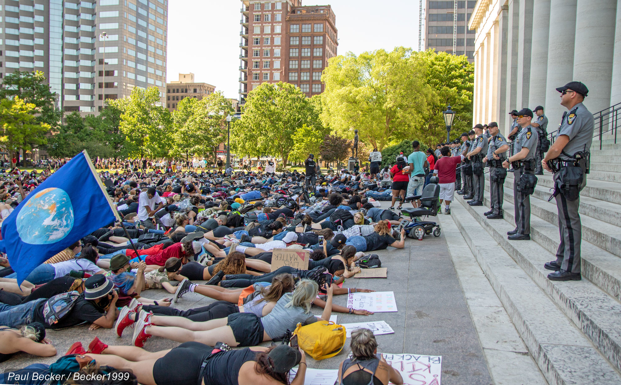 Columbus Protests: Day 7 (6th downtown)